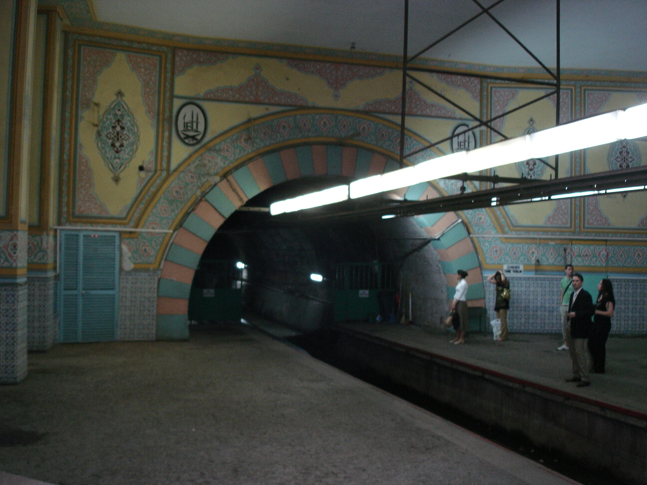 The Funicular, in Galata, Istanbul. It was built at the beginning of 20th century in moresque style. Picture by: Giovanni Dall'Orto, 29-may-2006.